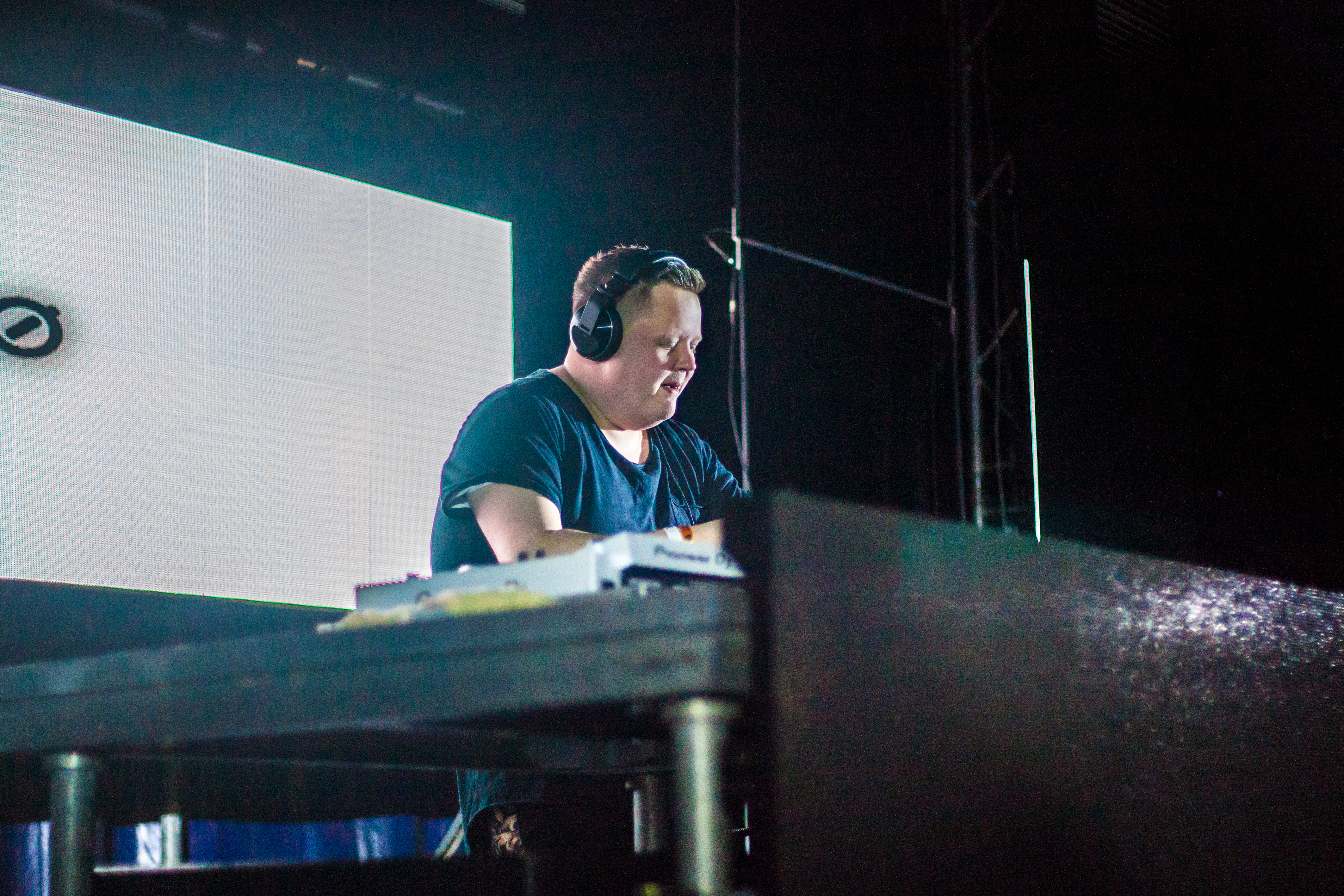 Ørjan Nilsen, Norvegian producer and DJ performing at Beats for Love (electronic music festival in Ostrava) on 3 July 2019